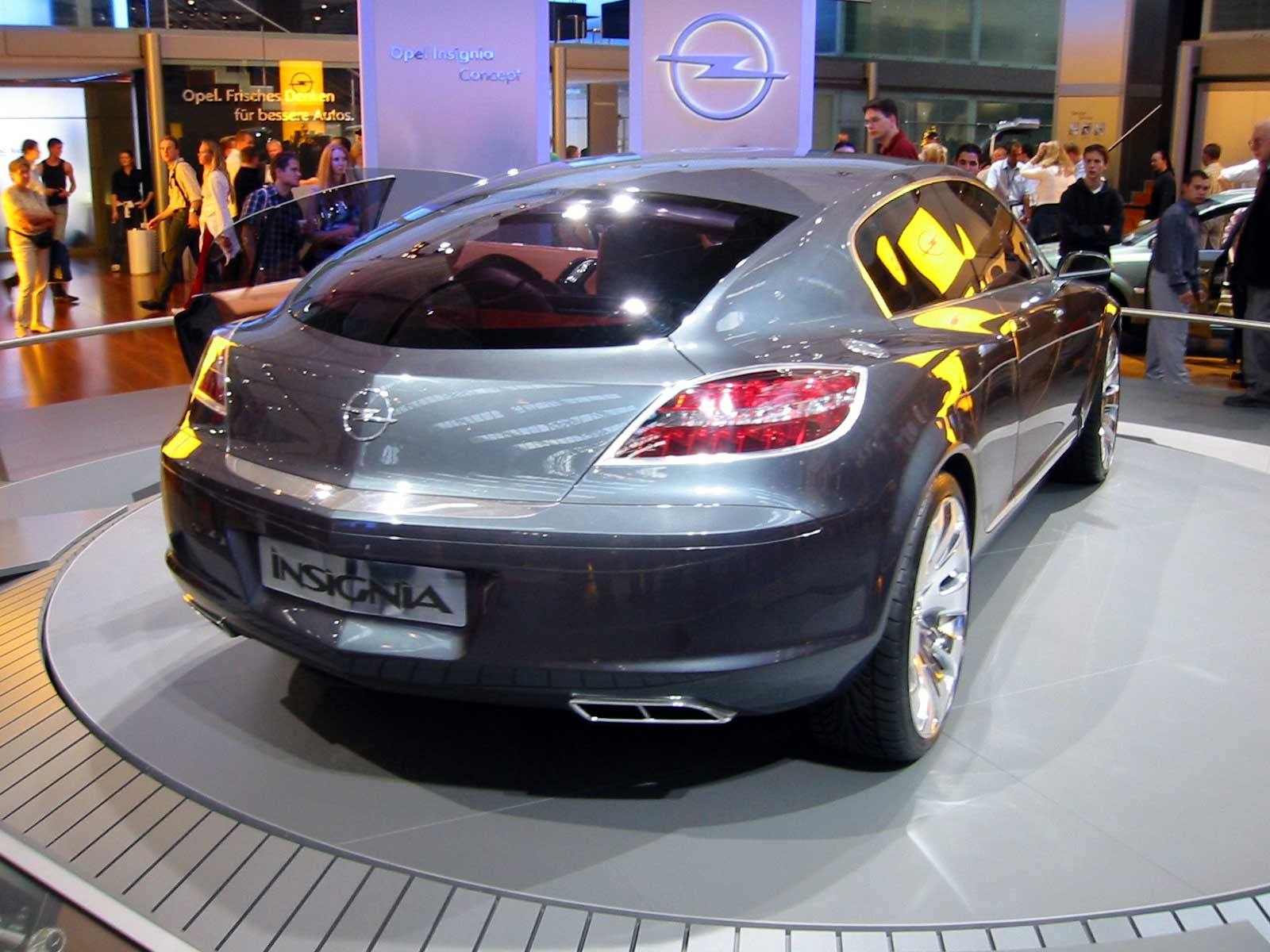 Opel Insignia Concept at the IAA 2003